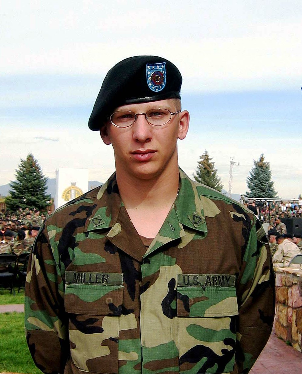 Army Pfc. Patrick Miller, a former prisoner of war in Iraq.